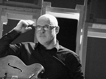 Skuli Sverrisson performing in Aarhus Denmark